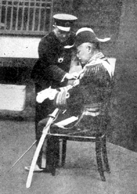 Japanese admiral Ogasawara Naganari (standing) with Fleet Admiral Togo heihachiro (seated)